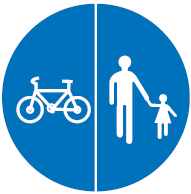 Luxembourg road sign diagram